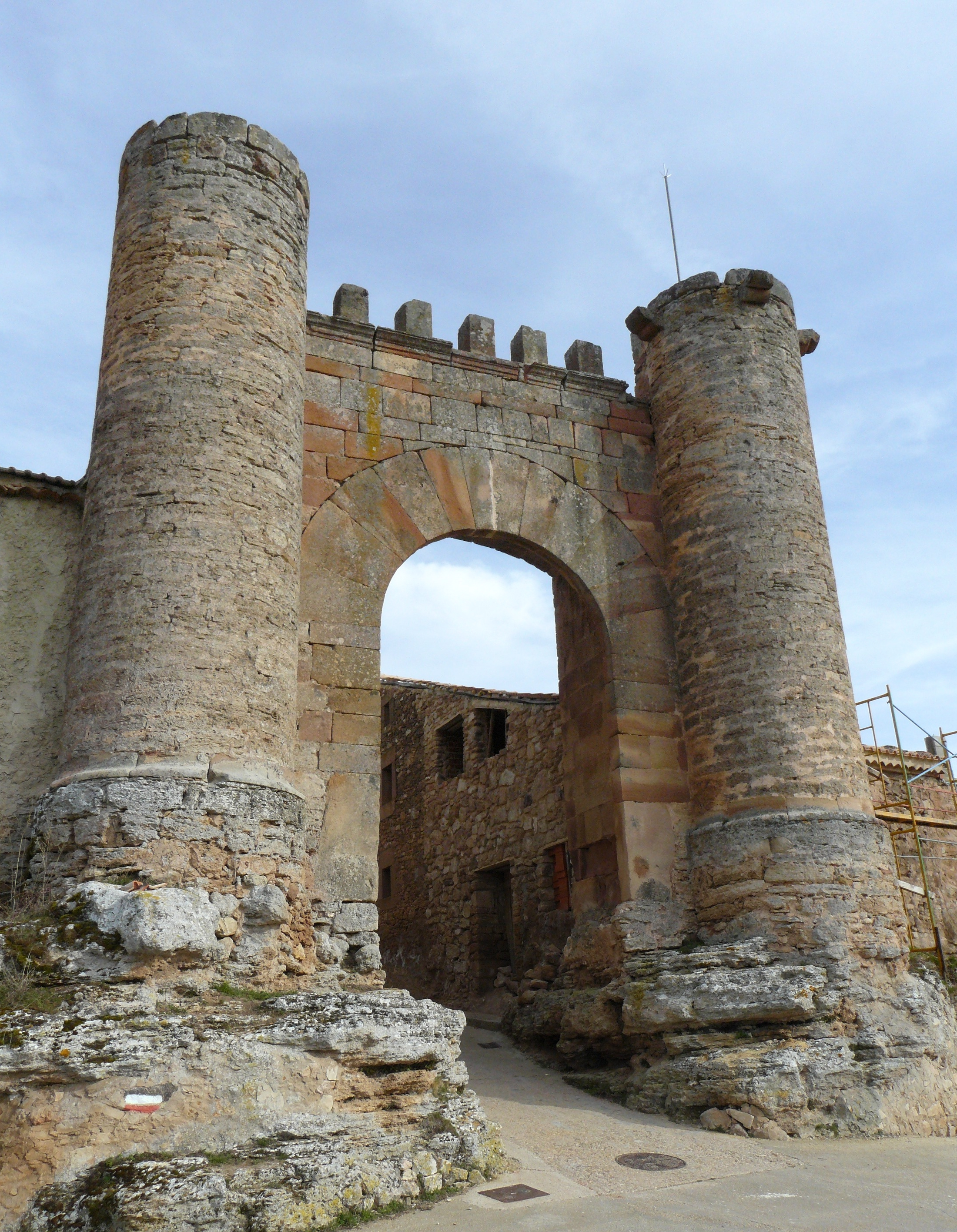 Western Medieval gate of Retortillo de Soria (Soria, Spain).